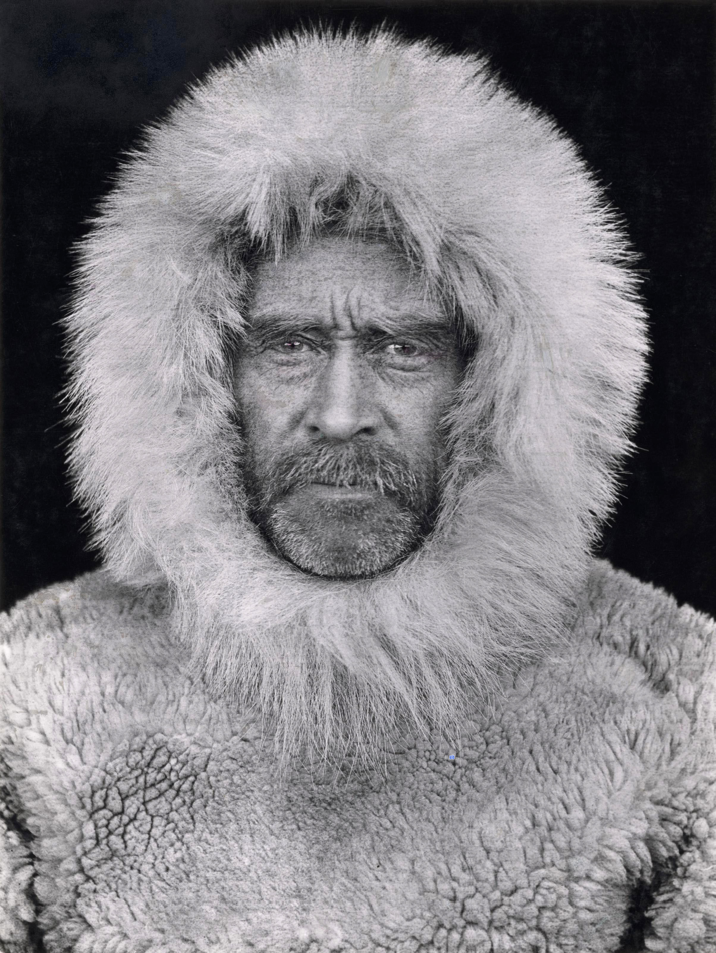 Robert Peary (1856-1920) Self-Portrait, Cape Sheridan, Canada, 1909, gelatin silver print